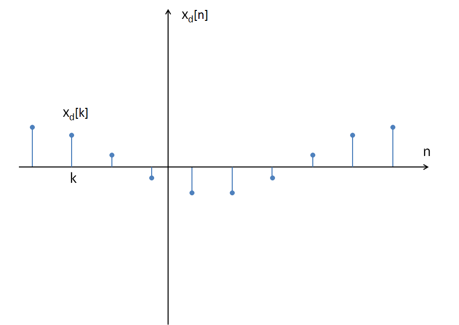 Exemple d'un signal discret dans la théorie de la modélisation des systèmes.